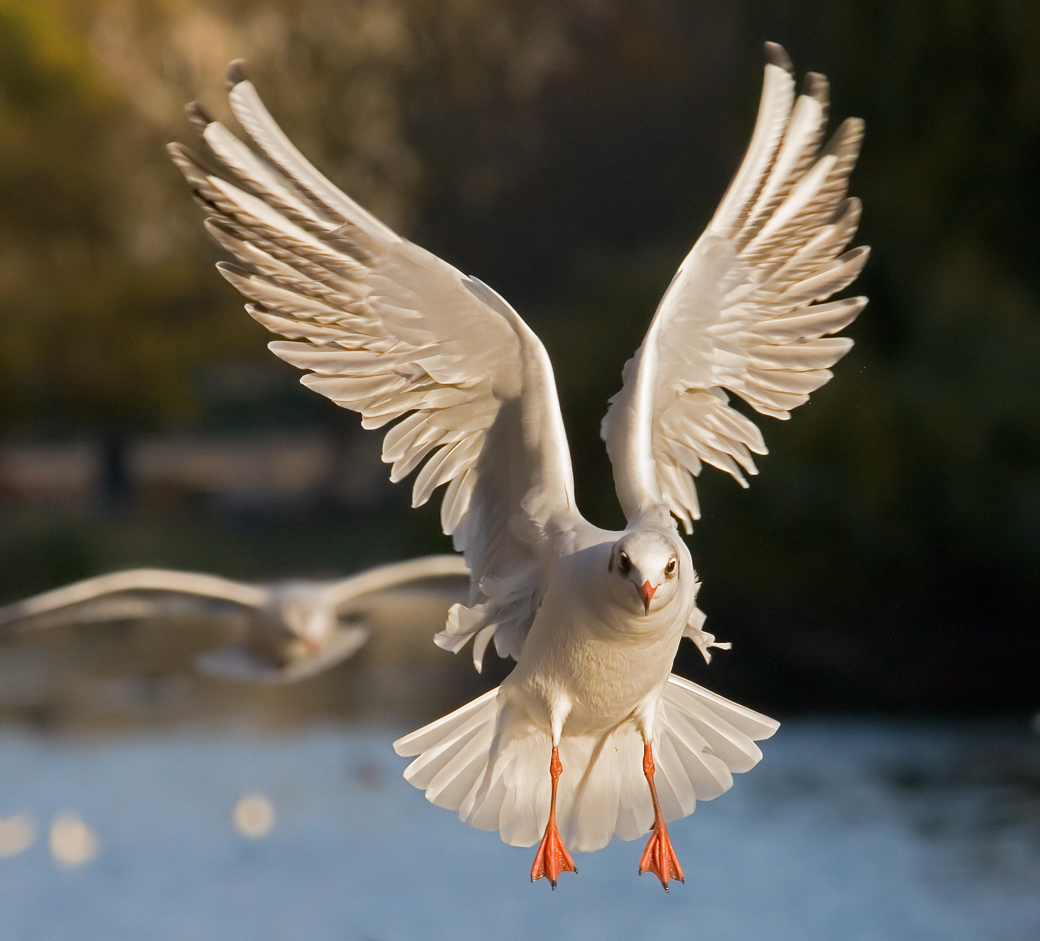 A Black-headed Gull in St James's Park, London, England. Although the gull typically has a black head, as the name suggests, its winter plumage around the head is white with black spots, visible on the side of the head. This image was taken by myself with a Canon 5D and 70-200mm f/2.8L lens at 150mm, ISO 1600 and f/8 with a 1/1600s shutter speed.